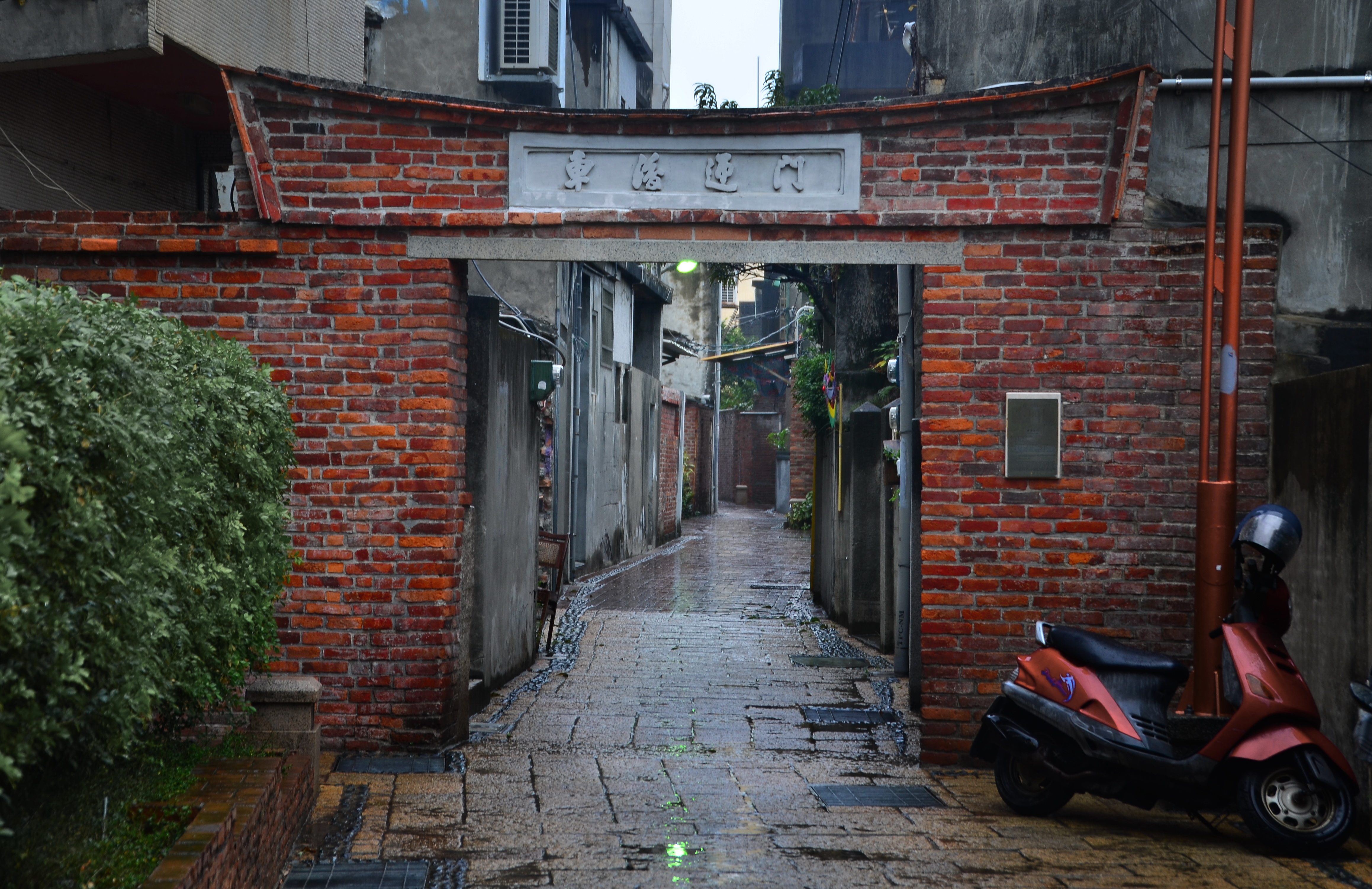 Lukang Ai Gate, Lukang Township, Changhua County, Taiwan.